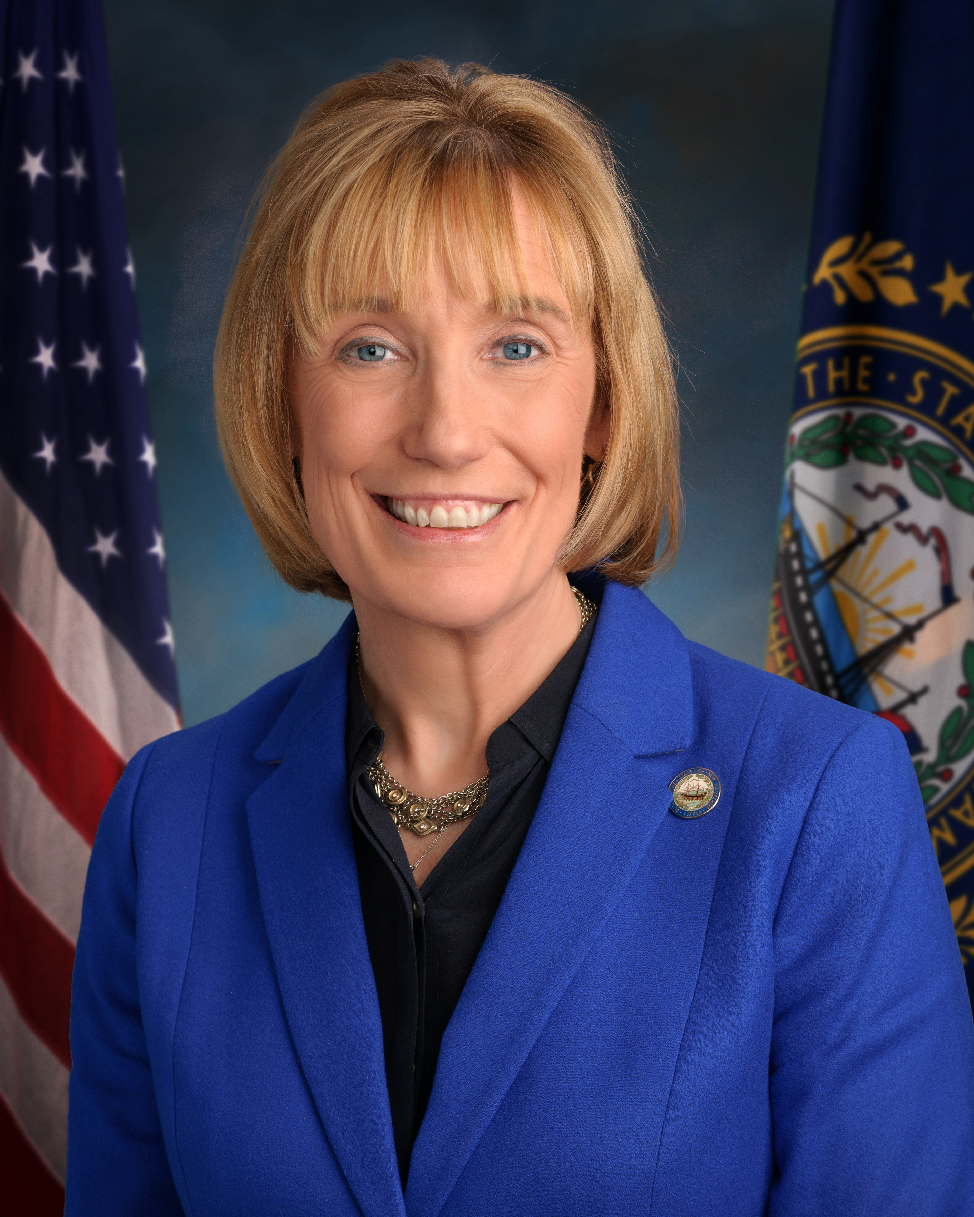 Official portrait of U.S. Senator Maggie Hassan (D-NH)